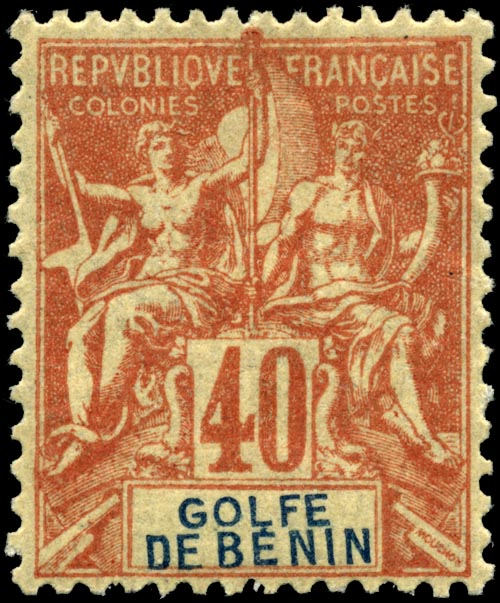 Benin 40-centime stamp of 1893